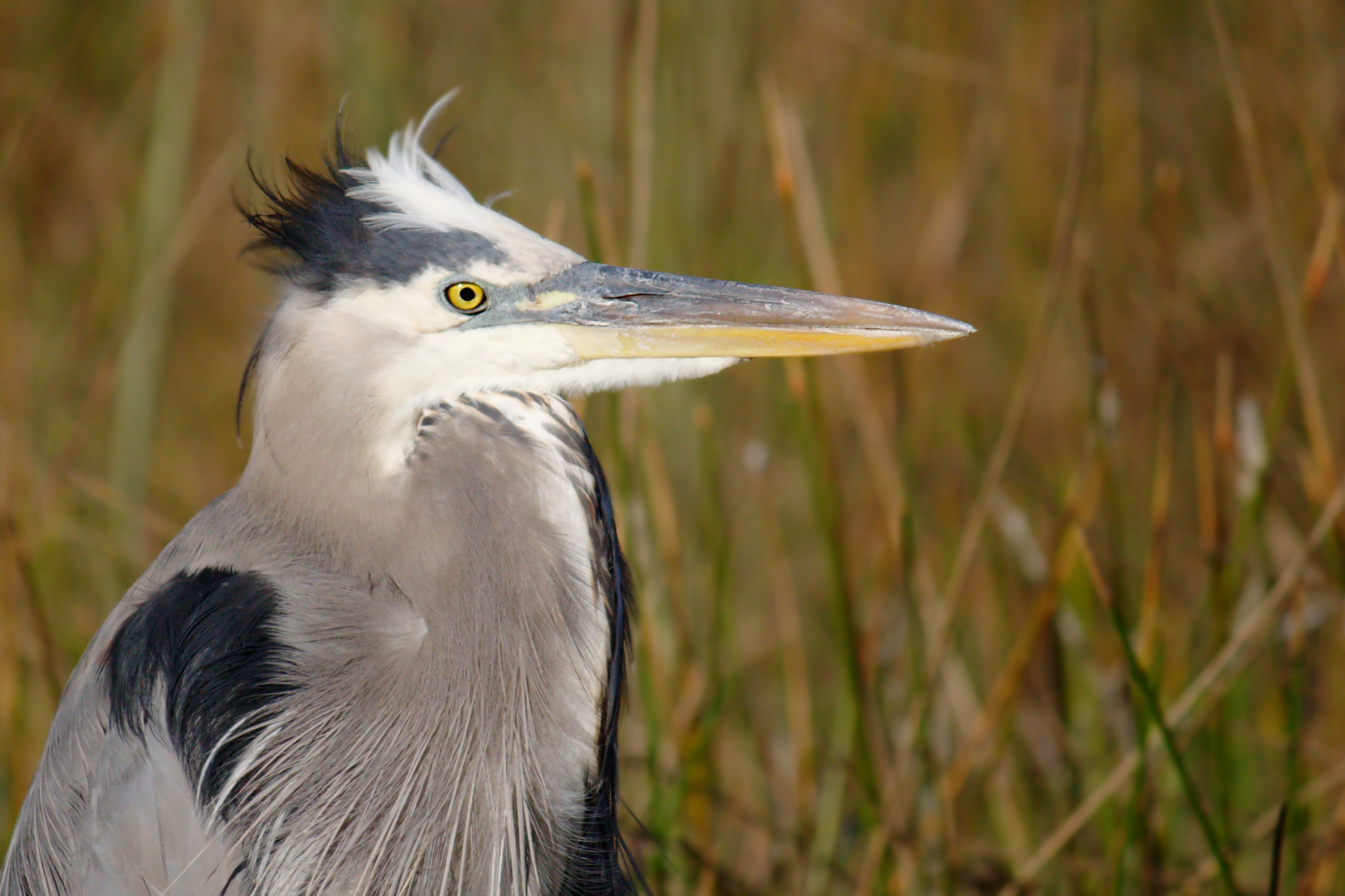 A photograpgh of a Great Blue Heron taken in the Everglades National Park.